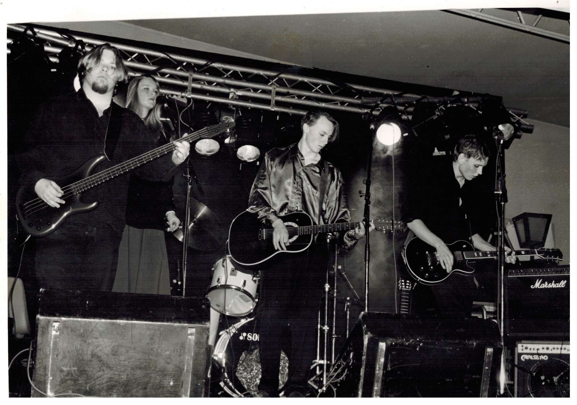 The rock band "Disharmonikerna" playing live in the auditorium of Polhemsskolan, Trollhättan, Sweden, March 1993. Photography by Patrik Johansson.